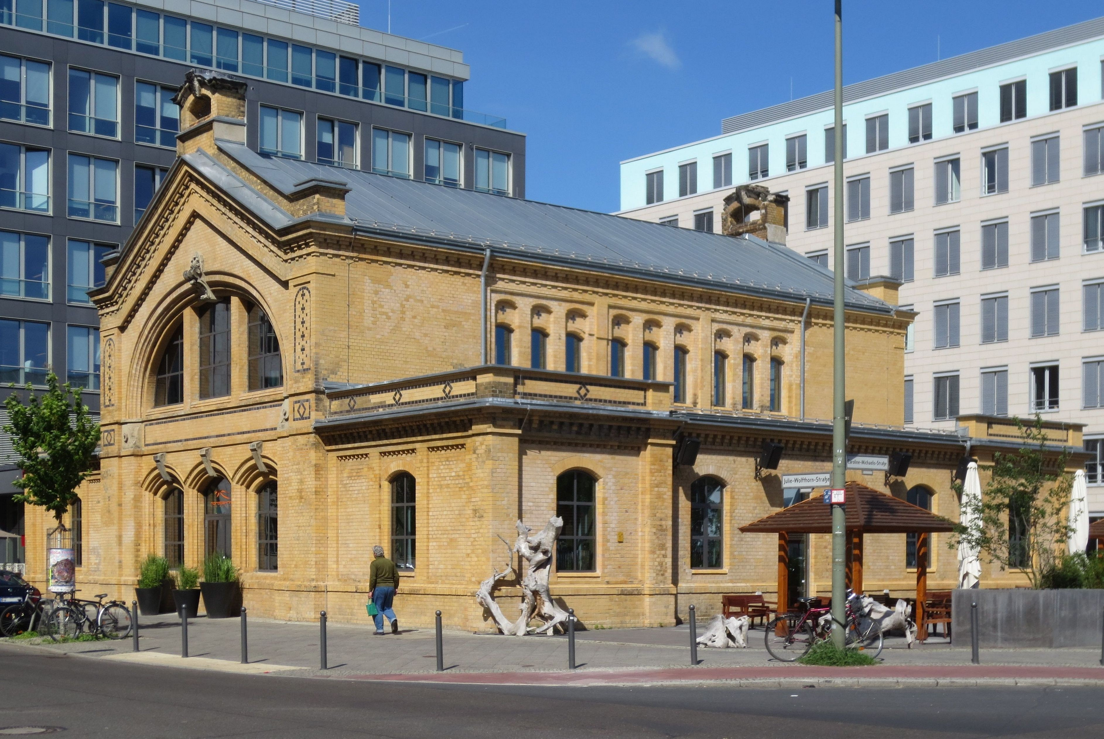 Former station building of the Stettiner Vorortbahnhof at Am Nordbahnhof 11 in Berlin-Mitte. Situation in 2013, after renovation.